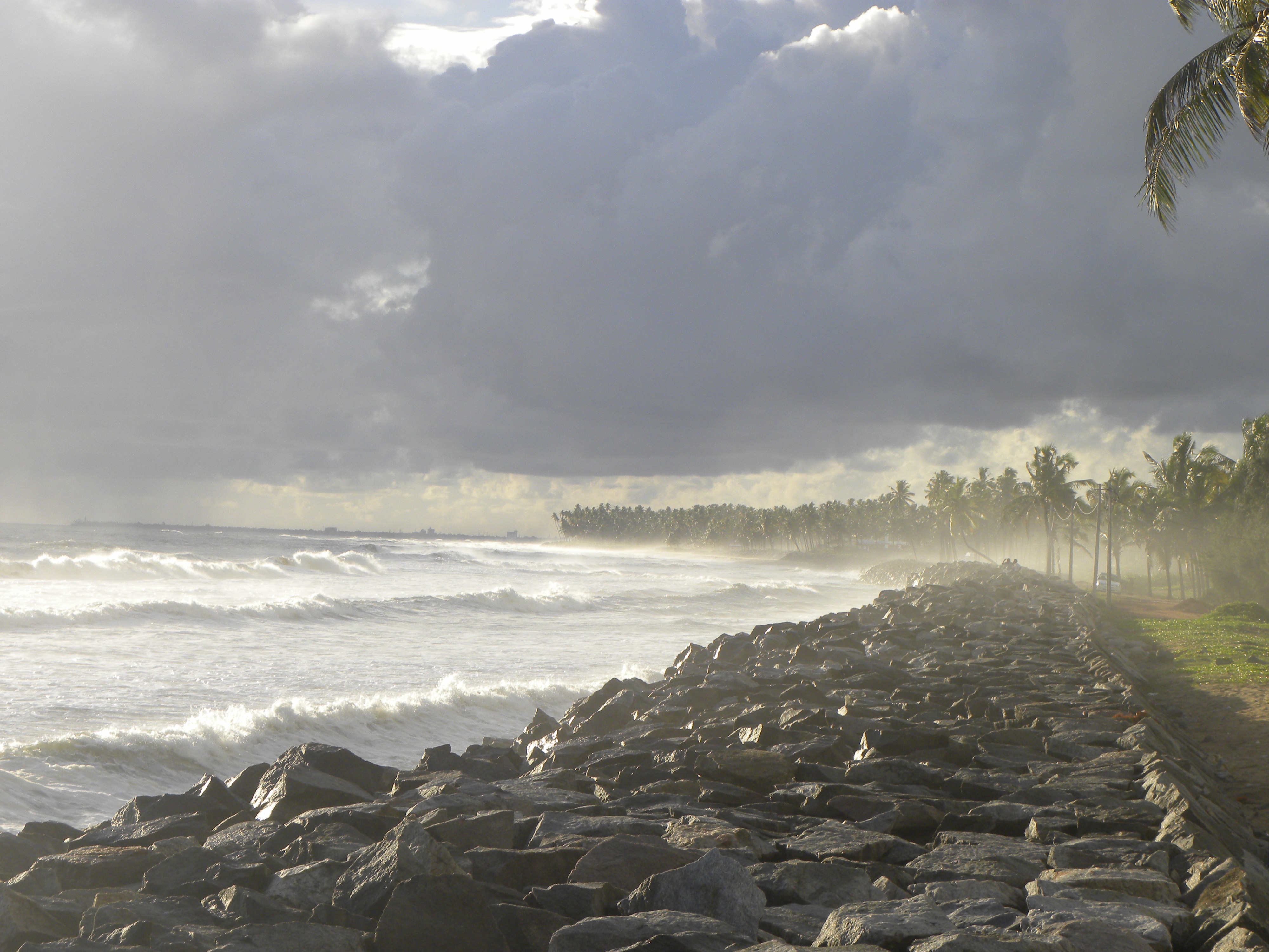 Thekkumbhagam in Paravur(Kollam) is the most scenic backwater destination in Kerala